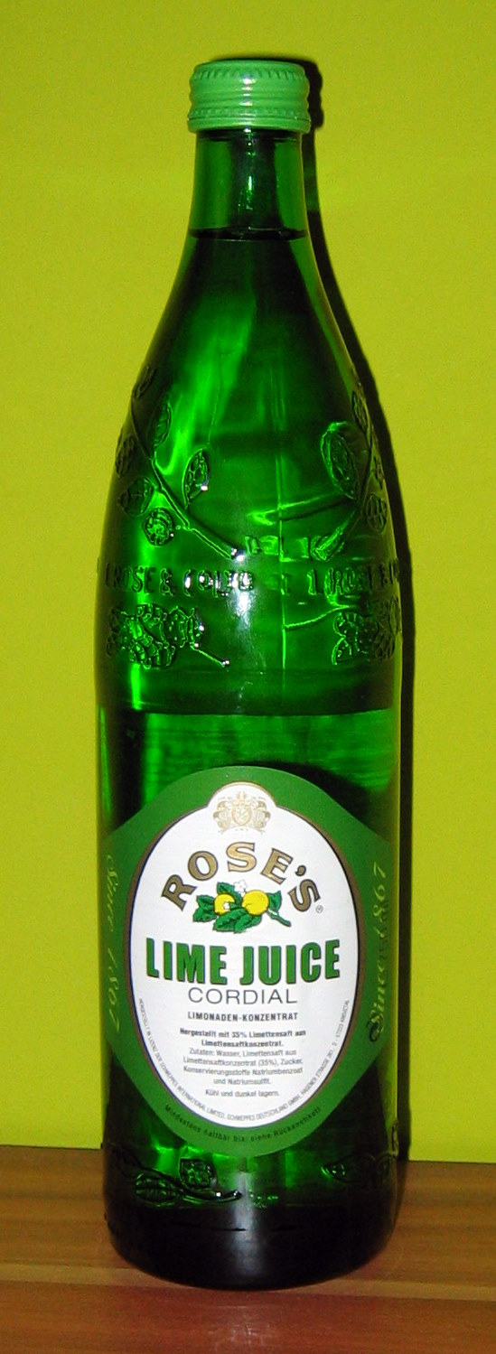 A bottle of Rose's Lime Juice